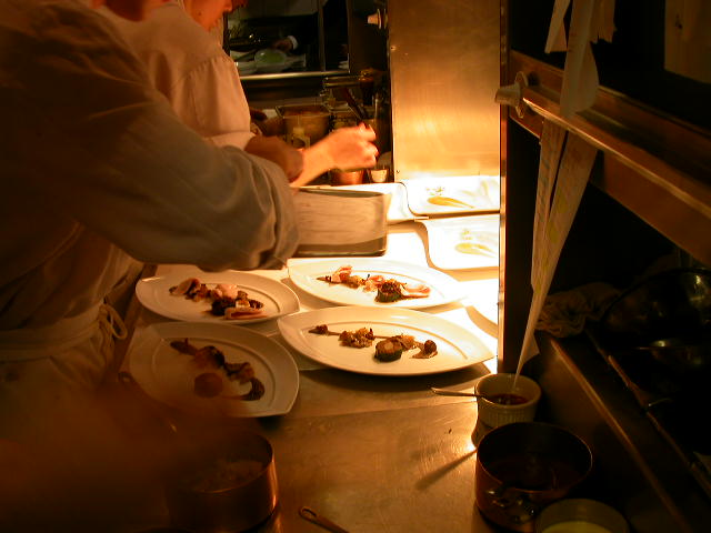 "Buttermilk Poached Poularde Breast with Salsify, Black Trumpet Mushrooms & Red Wine Essence", Charlie Trotter's Restaurant, Chicago.